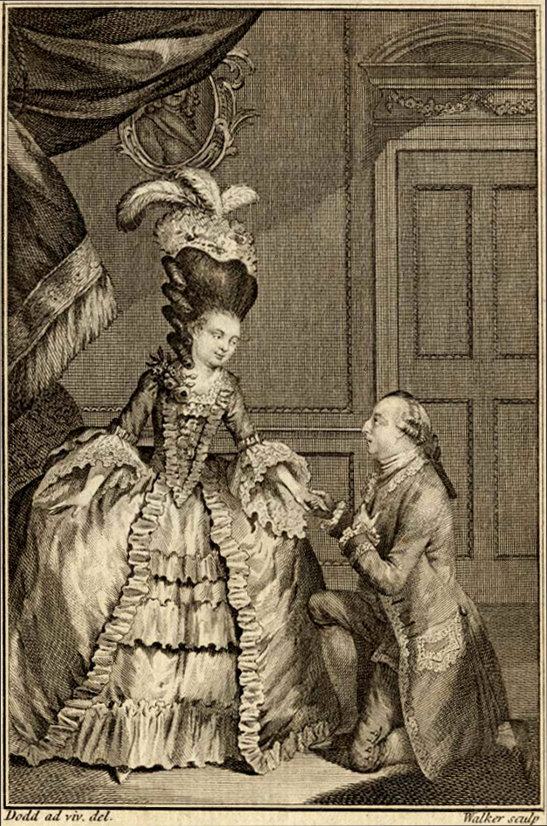 Mr. Palmer as Careless and Mrs. Gardiner as Lady Plyant in The Double Dealer by William Congreve (acte IV scene 2), scanned from New English Theatre, 1777 edition, vol. 9.